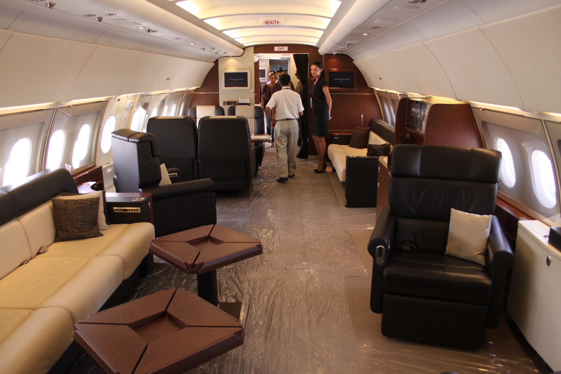 At Dubai International DXB